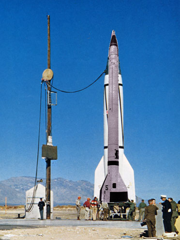 A Viking RTV-N-12 rocket image over an image of a captured V-2 for comparison.